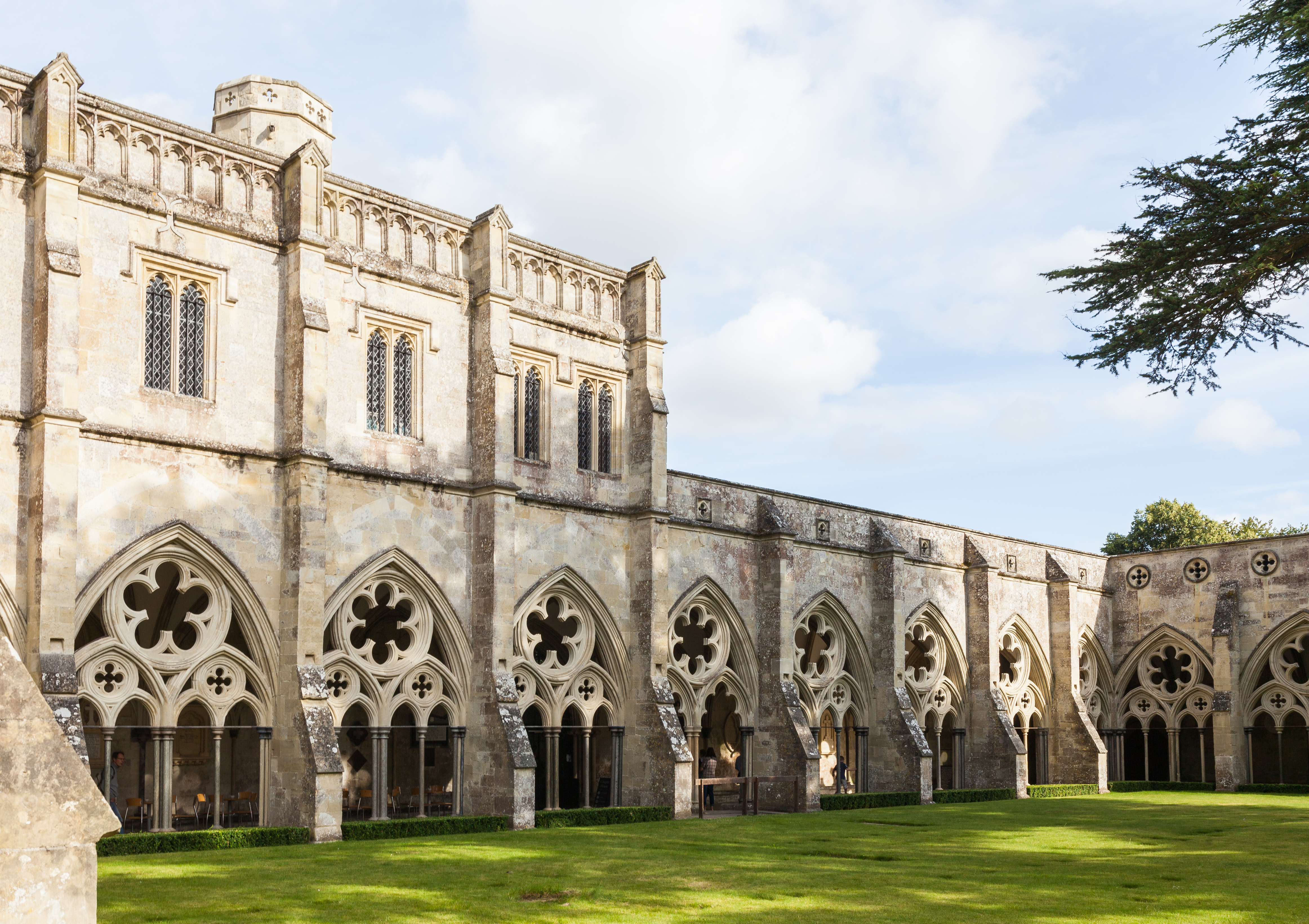 Salisbury Cathedral, Salisbury, England